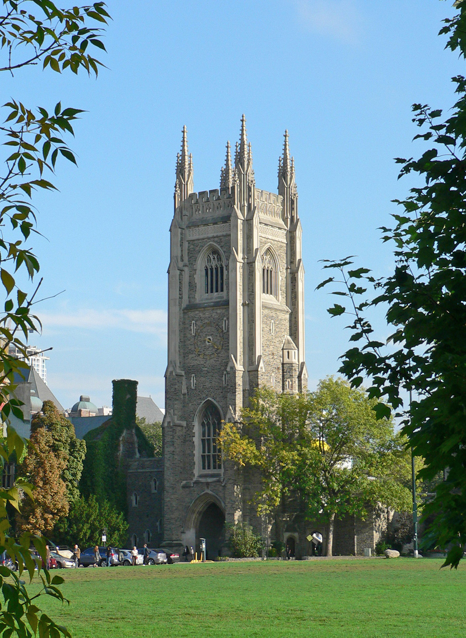 A Gothic tower dedicated to fallen soldiers of WWI and WWII in Toronto